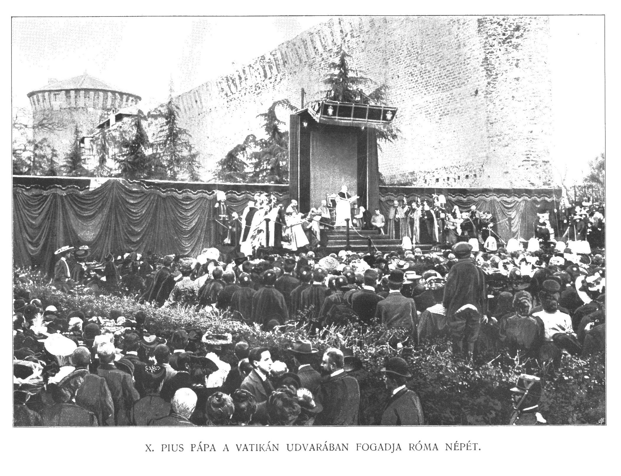 Pope Pius X receives people of Rome in Vatican court-yard